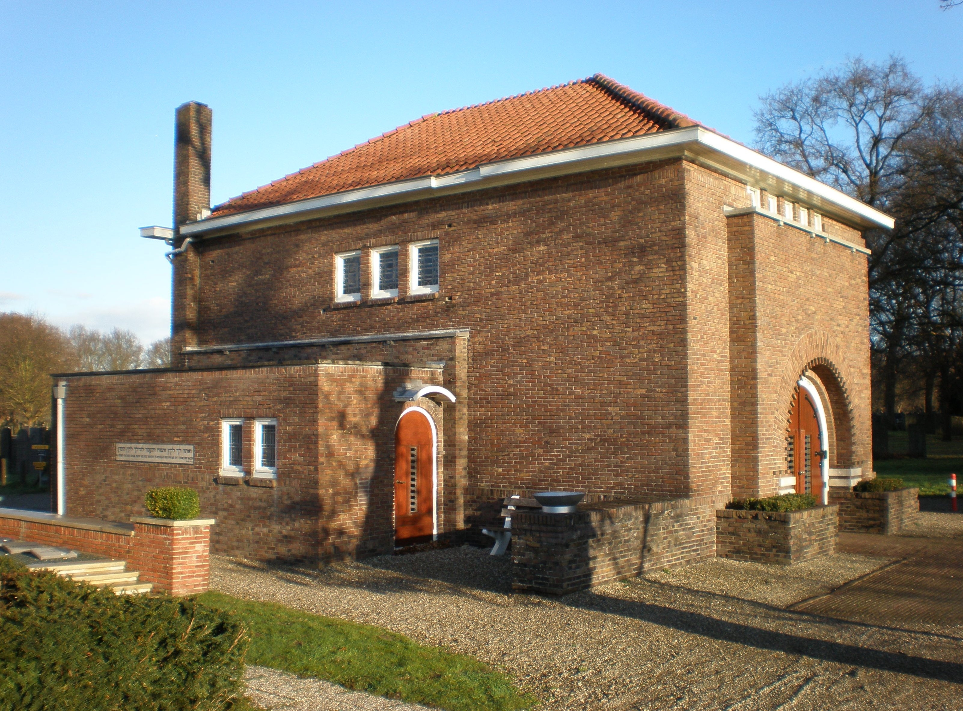 Morgue of the Jewish cemetery in Muiderberg.